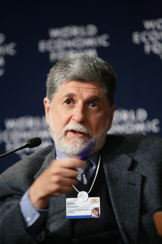 DAVOS/SWITZERLAND, 27JAN07 - Celso Amorim, Minister of Foreign Affairsof Brazil Moderated by John K. Defterios, Group Vice-President, Content and Anchor, United Kingdom, FBC Media, United Kingdom captured during the session 'Frozen Trade Talks and the Need for Progress' at the Annual Meeting 2007 of the World Economic Forum in Davos, Switzerland, January 27, 2007.